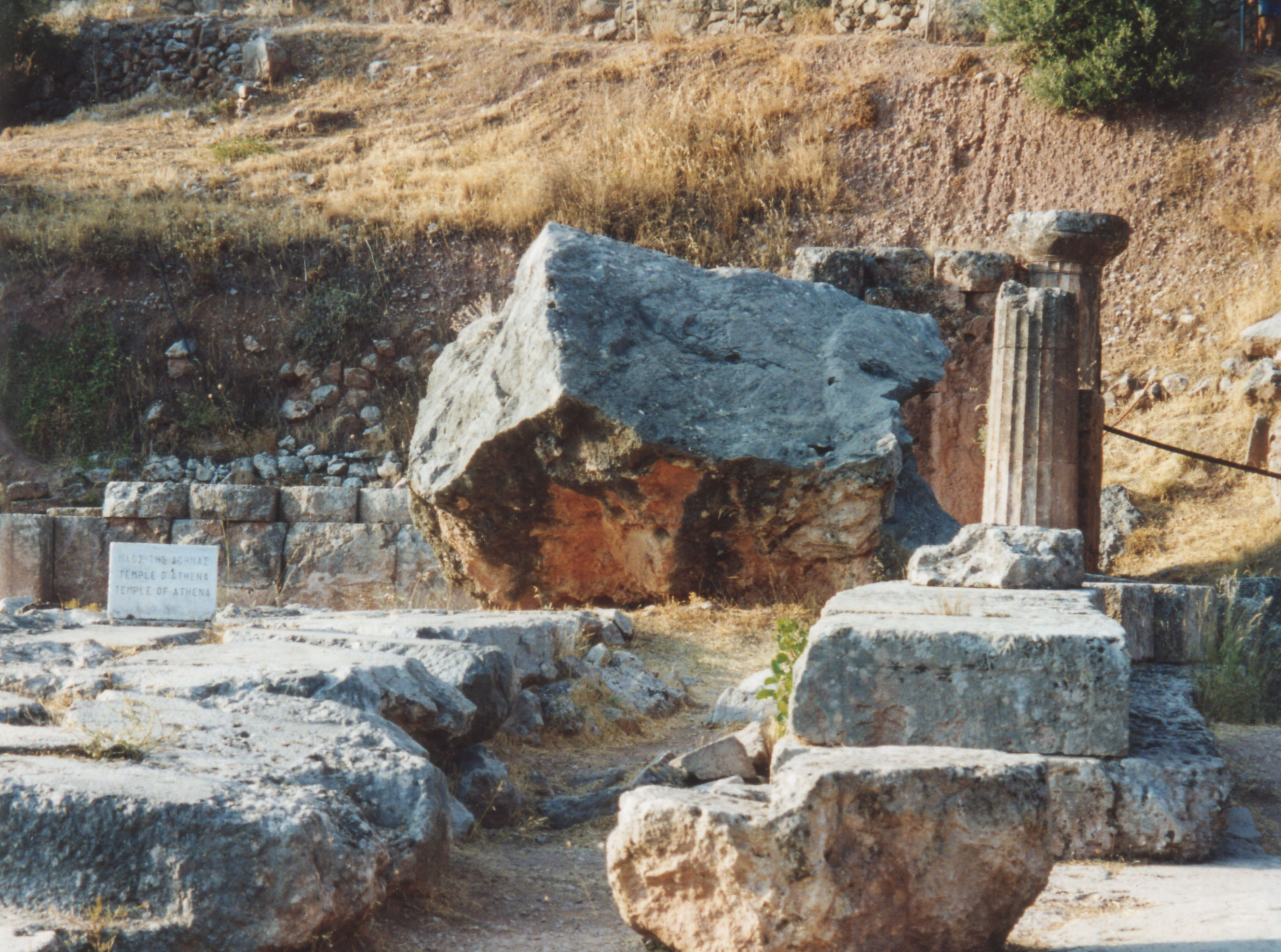 The Temple of Athena in the Marmaria, Delphi. Beneath the cliffs in an earthquake zone is a perilous place for any building to be. Even the temple of Athena has not been spared the wrath of the Gods. Before 1905 Today.